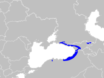 Distribution map of Pelodytes genus.